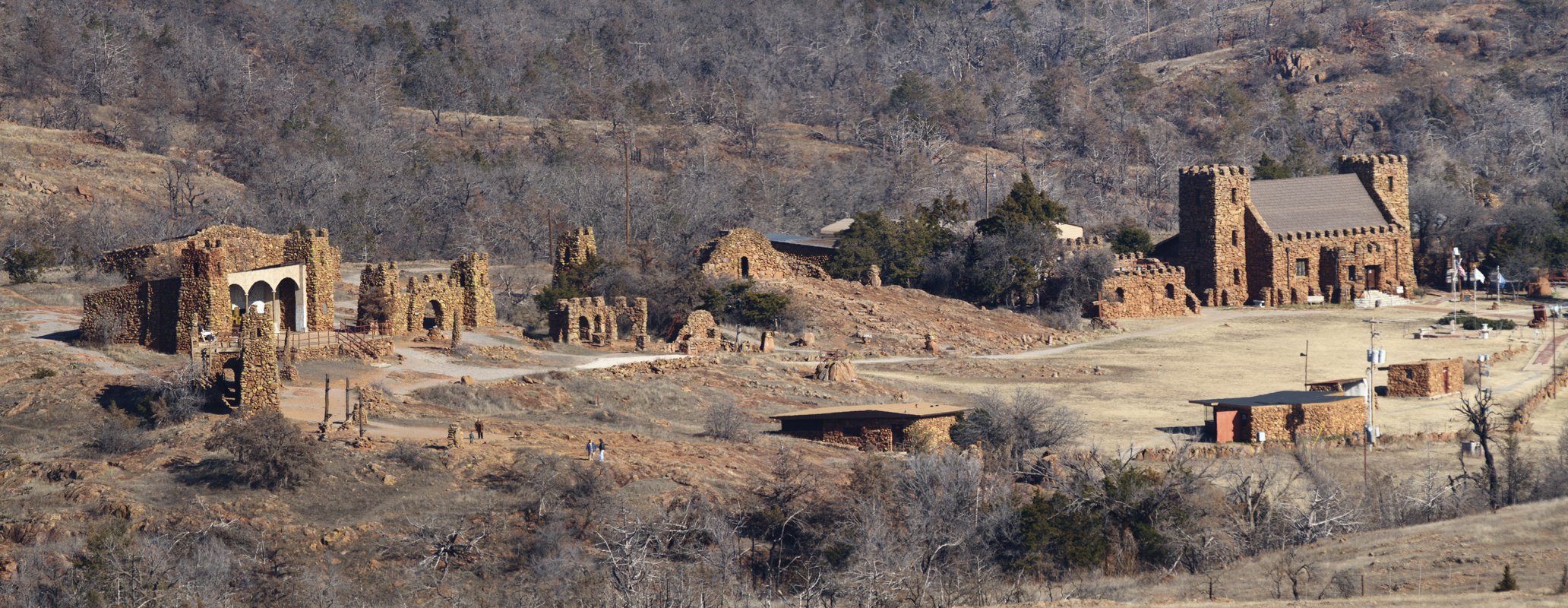 The Holy City of the Wichitas, Wichita Mountains Wildlife Refuge, Oklahoma